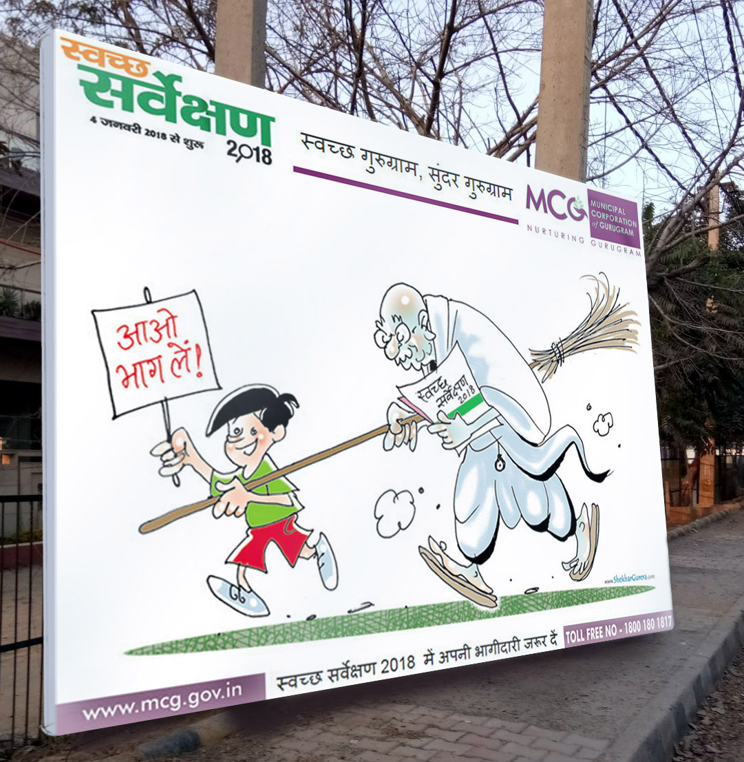 One of the posters from cartoon based campaign by MCG to draw attention towards the civic work and Swachh Survekshan2018. Cartoonist Shekhar Gurera have been on board of it as the official cartoonist (Brand Ambassador for cartoons) : February12, 2018